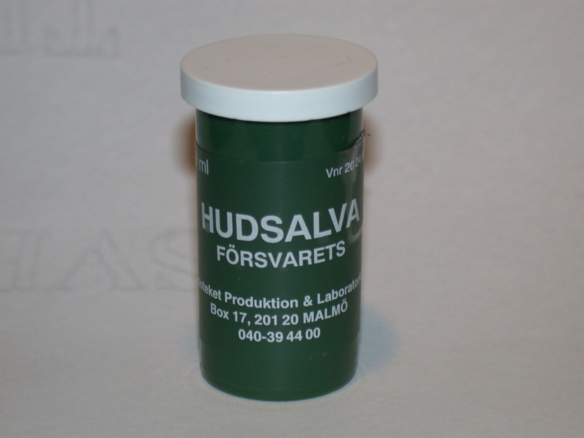 Swedish armed forces lip balm. Photo by Riggwelter, February 3, 2007.